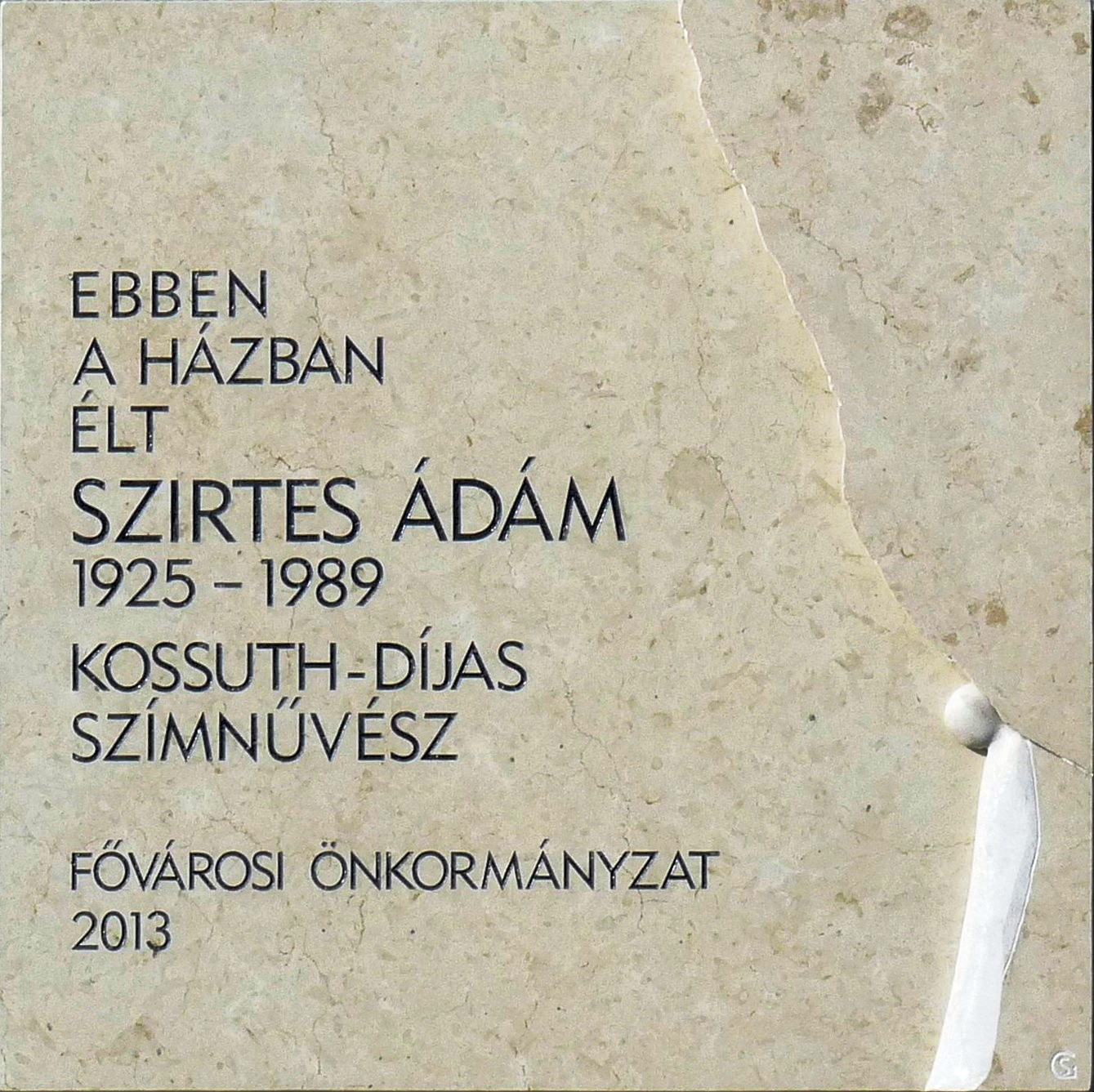 Commemorative plaque to Mr. Ádám Szirtes (1925-1989) Hungarian actor, affixed to the front of his former home. The plate sculpted by Mr. Geza Stremeny has been installed on the front of the building where the artist lived and unveiled on 21 October 2013. (Budapest, District II, Árpád fejedelem Street Nr 20).